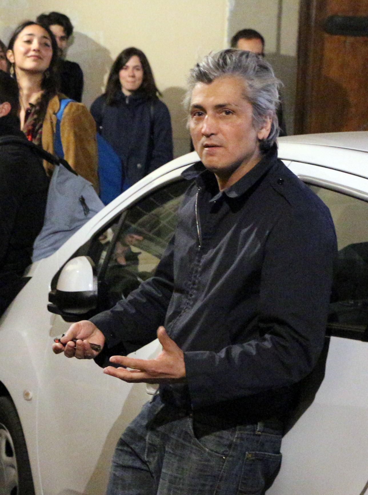 Sislej Xhafa workshop at Accademia di Belle Arti (Florence, April 2015)